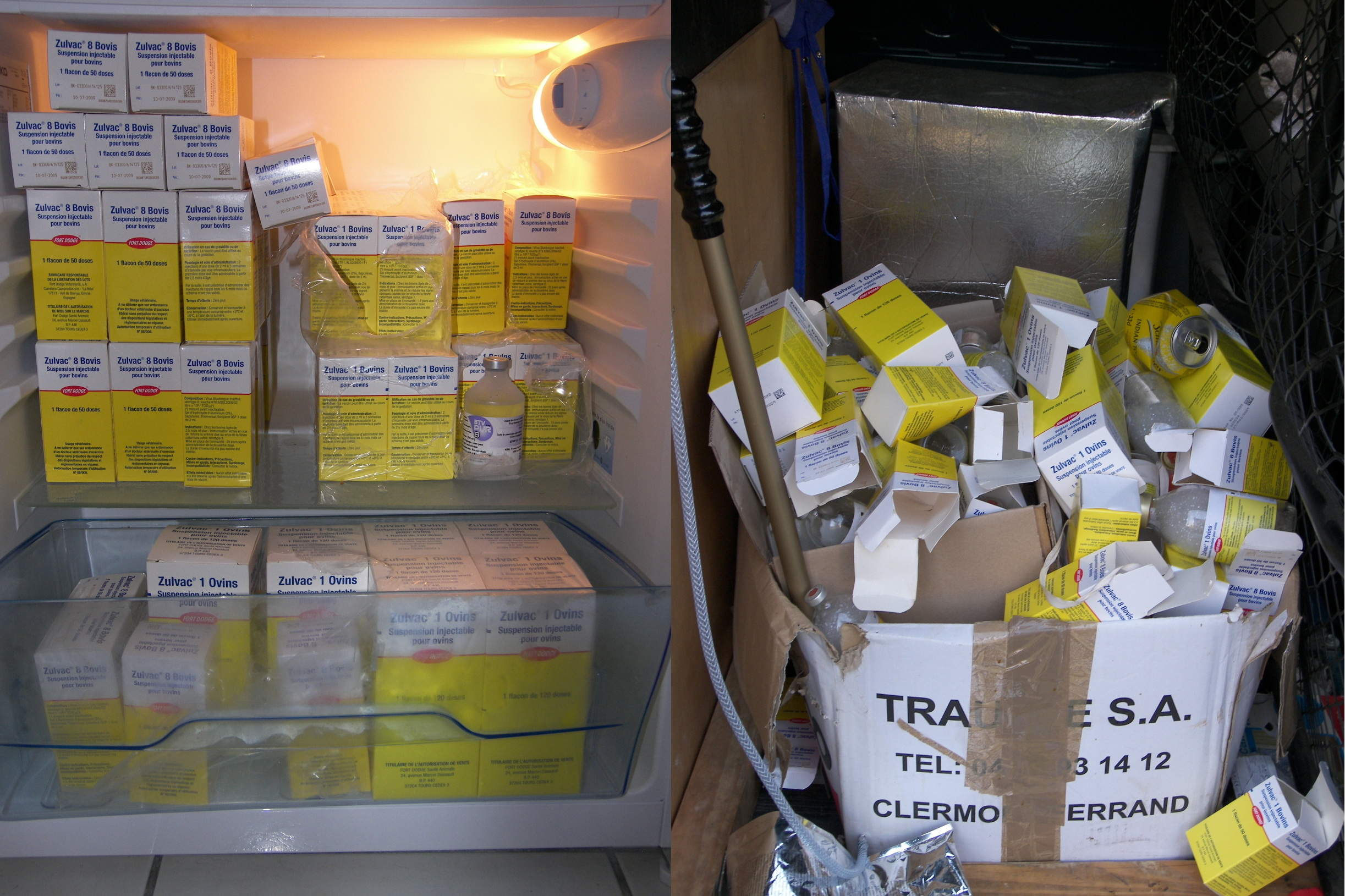 Bluetongue vaccines, before and after use